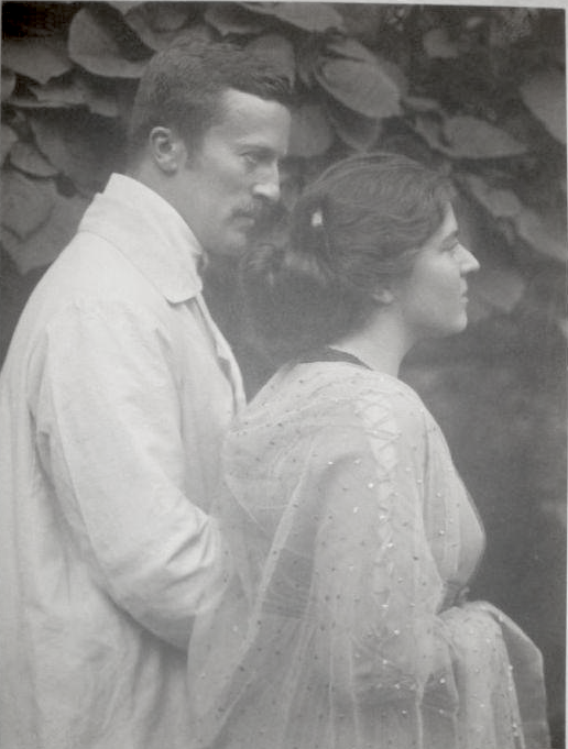 Double portrait of Richard Luksch and Elena Luksch-Makovsky, print on platine, dim.: 21,7 × 16,4 cm. Signed on back by Rudolf Dührkoop and Minya Diez-Dührkoop.